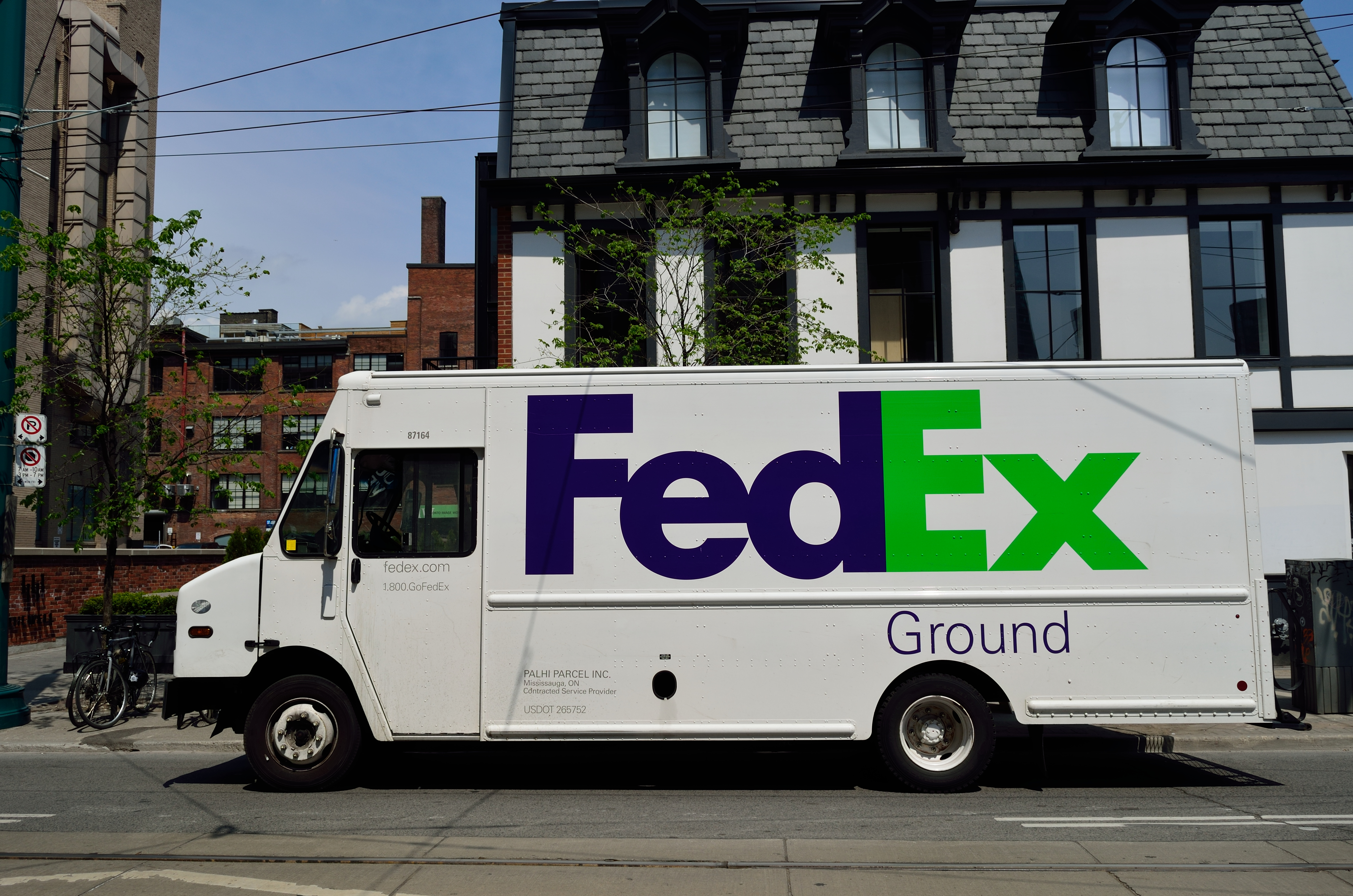 FedEx Ground